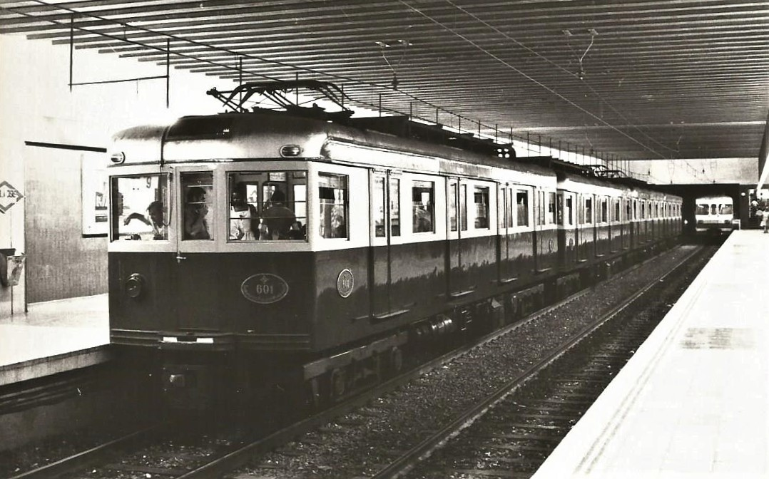 A train of the 600 series of the Metropolitan Railway of Barcelona, at the line V Pubilla Casas station.